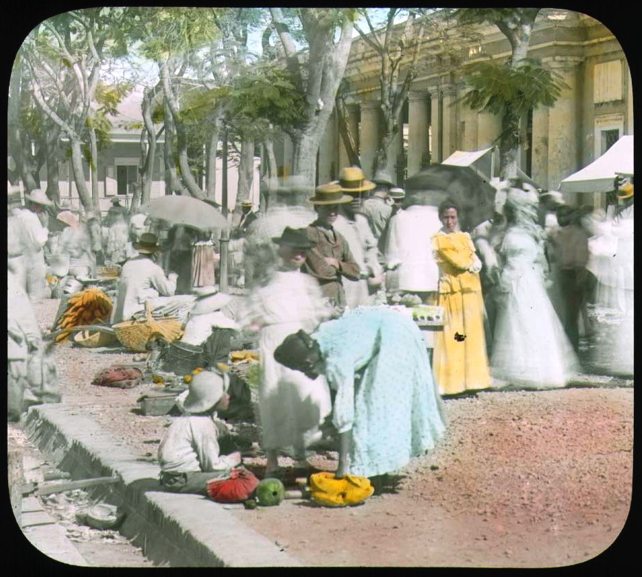 Market place in Ponce. 1899. Name of Expedition: Allison V. Armour Expedition Participants: Charles F. Millspaugh, Edward P. Allen, Edward S. Isham Jr.,Jordan L. Mott Jr. Expedition Start Date: December 21, 1898 Expedition End Date: March 11, 1899 Purpose and Aims: Plant collecting and photography for Botany in the Bermuda, Bahamas, Haiti, Jamaica, Puerto Rico, Cuba, Yucatan. Vessel Name: Utowana (Yacht, Sailboat) Location: Central America, Puerto Rico, Ponce Original material: Hand Colored Lantern Slide Digital Identifier: CSB4291c Learn more about The Field Museum's